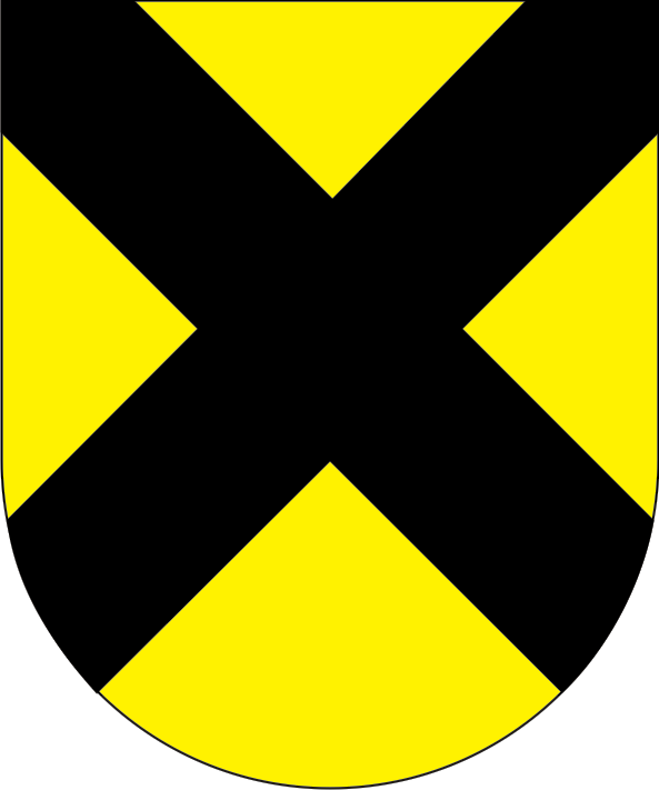 coats of arms of the lordship of Dagstuhl